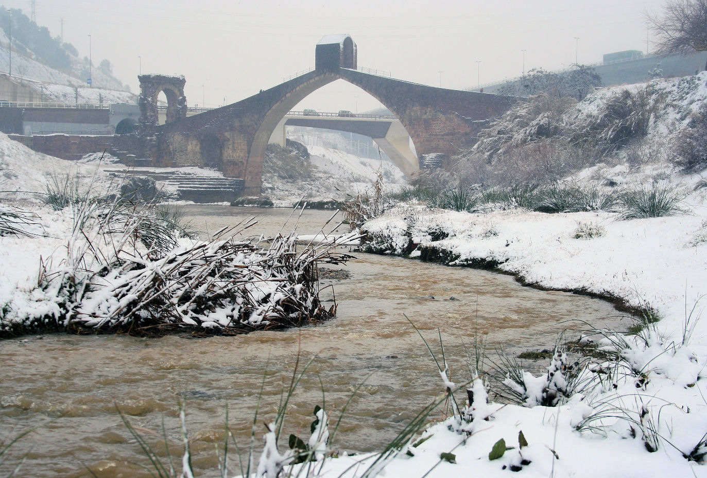 The Puente del Diablo is a bridge over the Llobregat in Martorell, Catalonia, Spain.